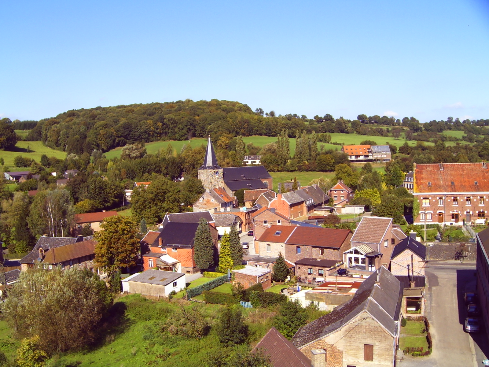 View of Sint-Martens_Voeren, Belgium, from a railroad bridge.